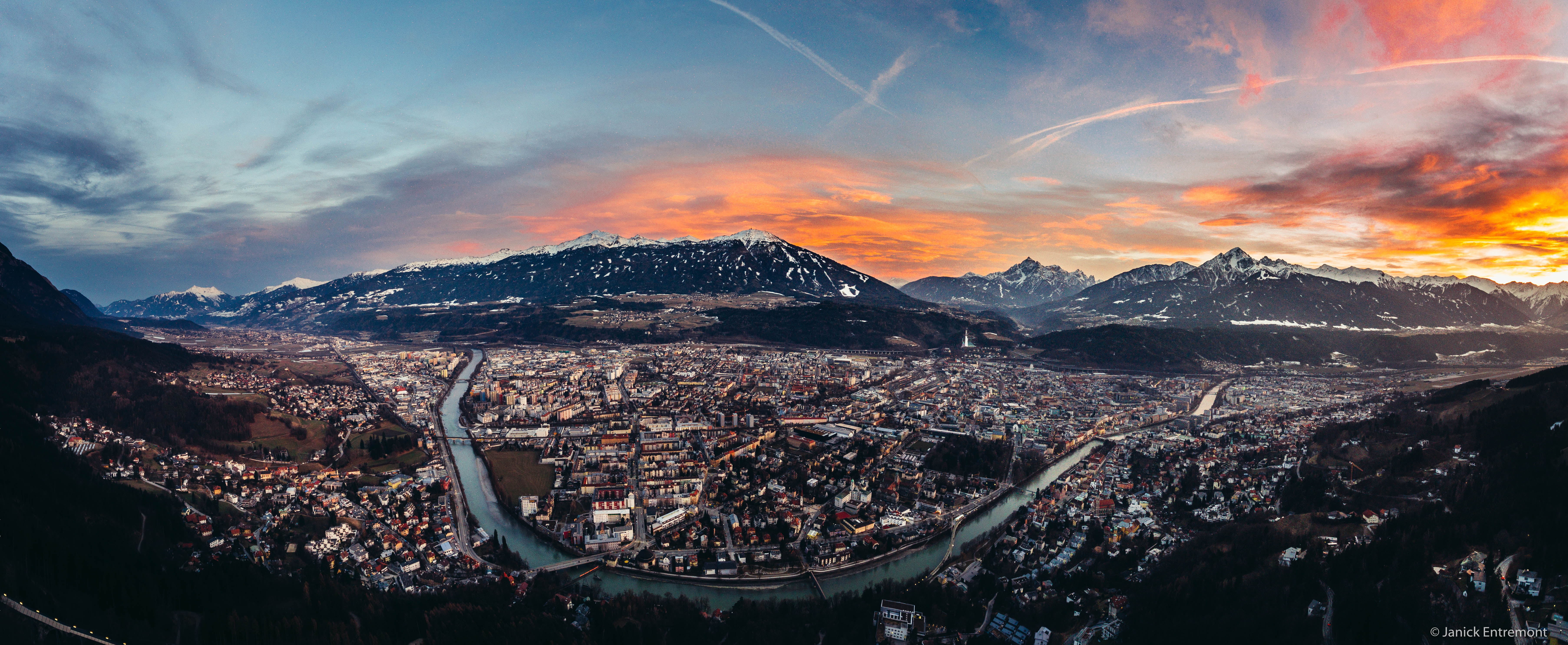 Panorama of Innsbruck